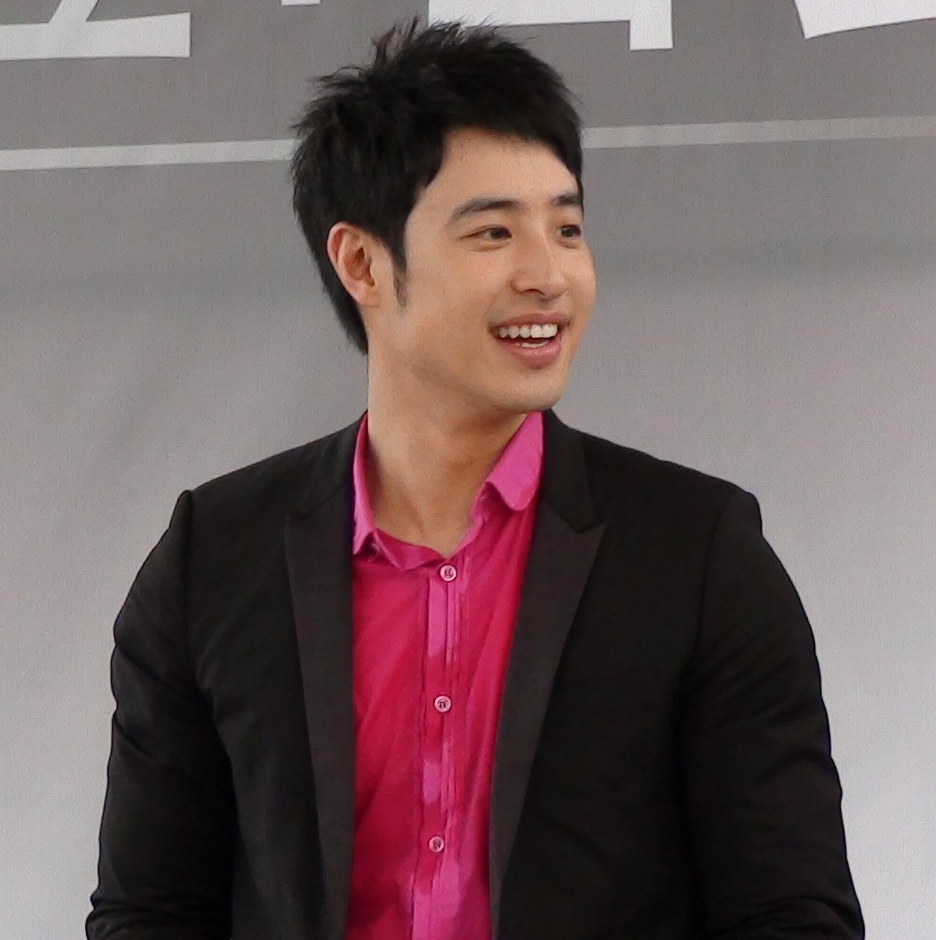 Wilber Pan at autograph session in Singapore, taken on 1 Aug 2009.